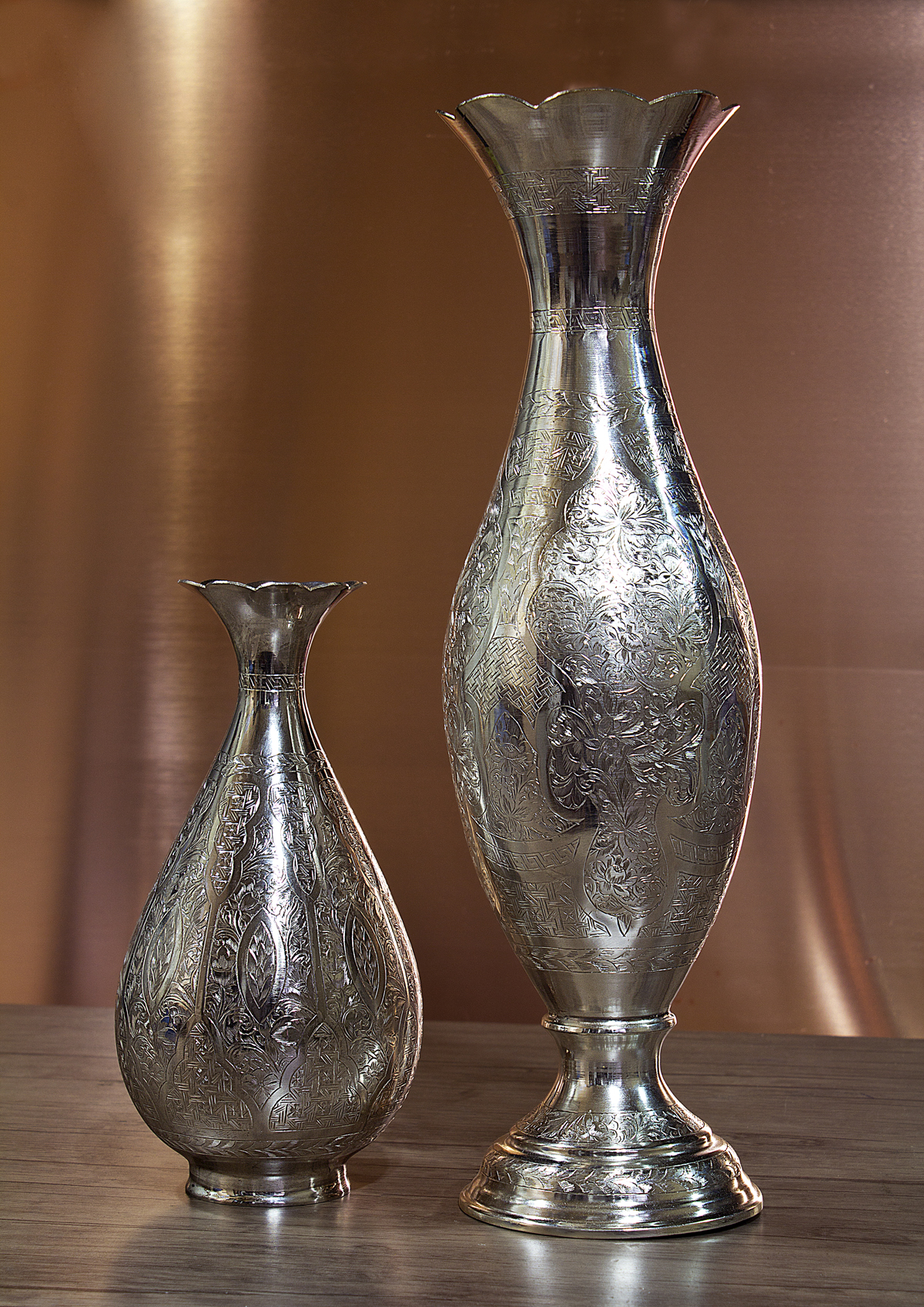 Tabriz style graver in copper.